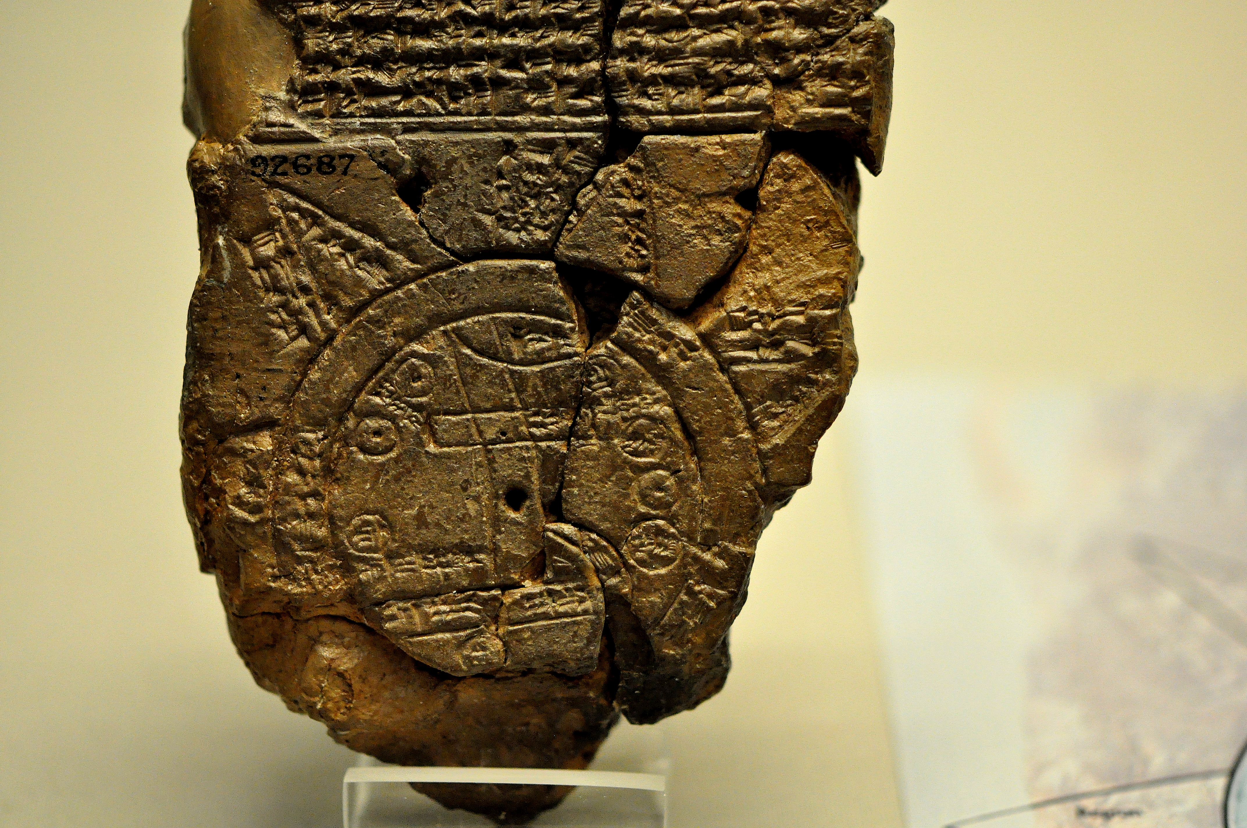 A close-up view of the Babylonian map of the World. This partially broken clay tablet contains both cuneiform inscriptions and a unique map of the Mesopotamian world. Probably from Sippar, Mesopotamia, Iraq. 700-500 BCE. The British Museum, London.